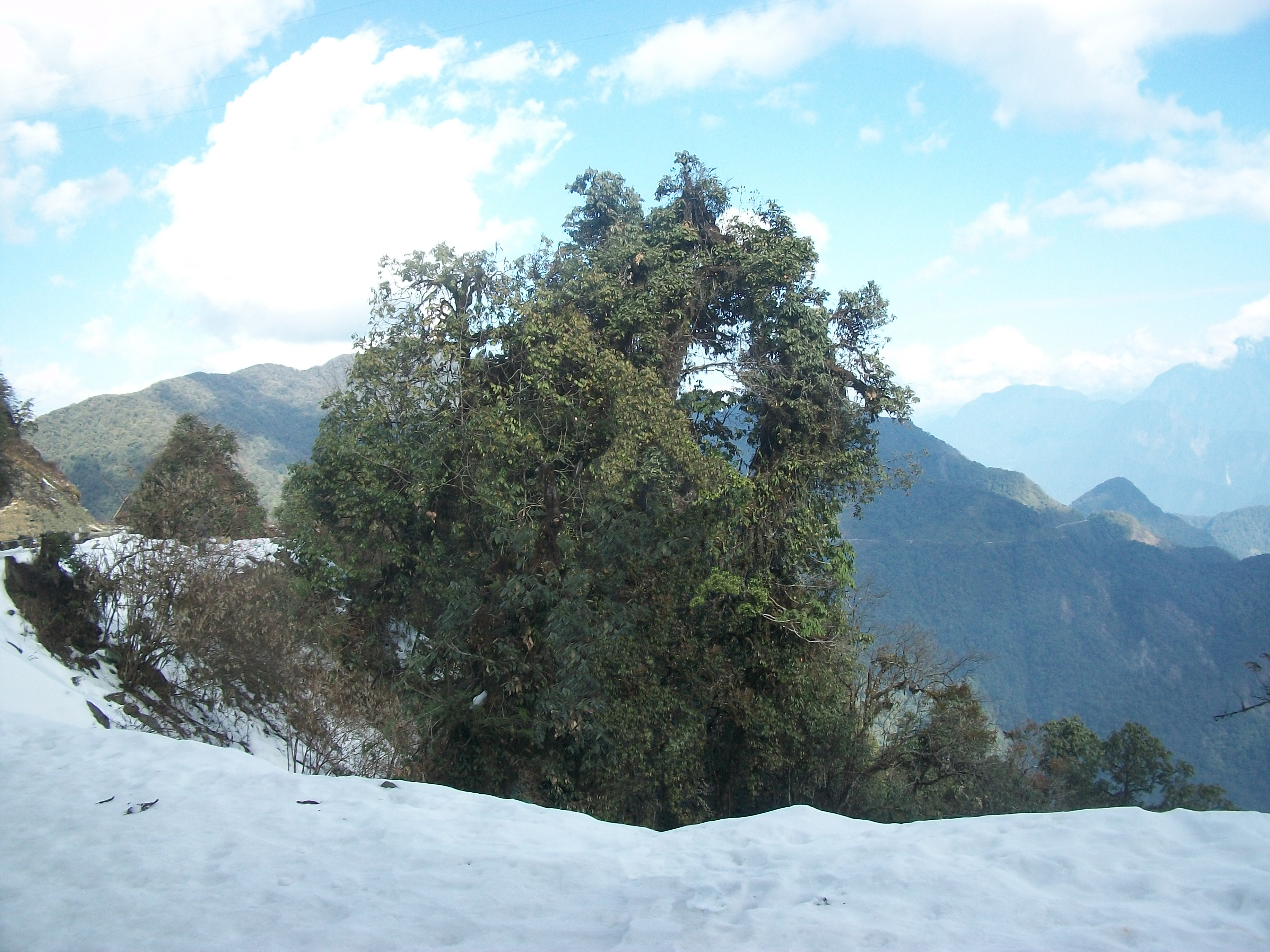 Picnic ground